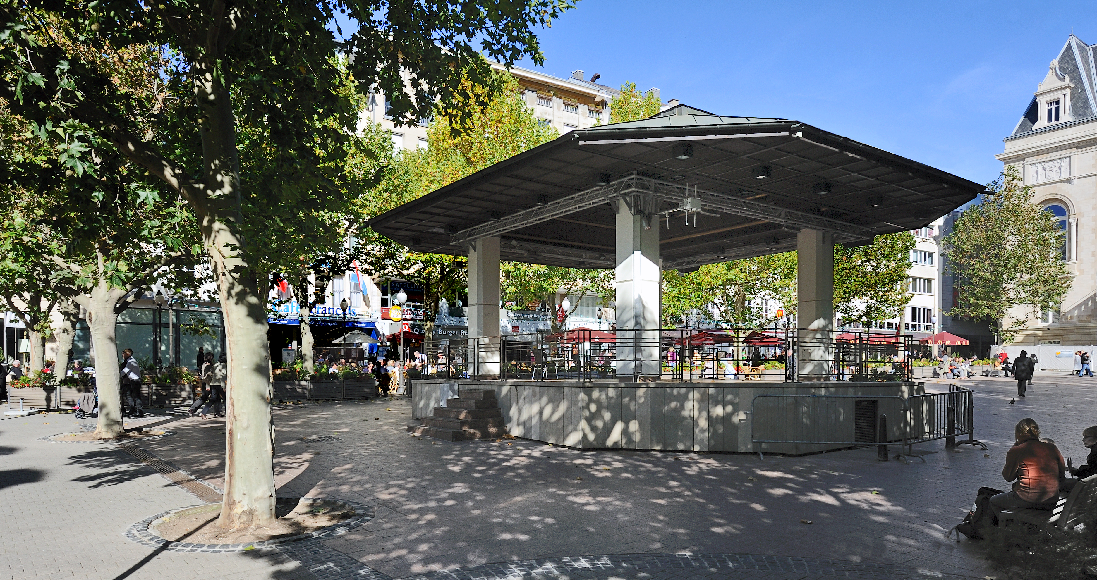 Luxembourg City: place d'Armes.